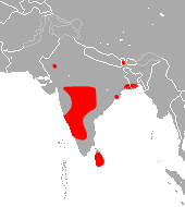 Indian Roundleaf Bat (Hipposideros lankadiva) range